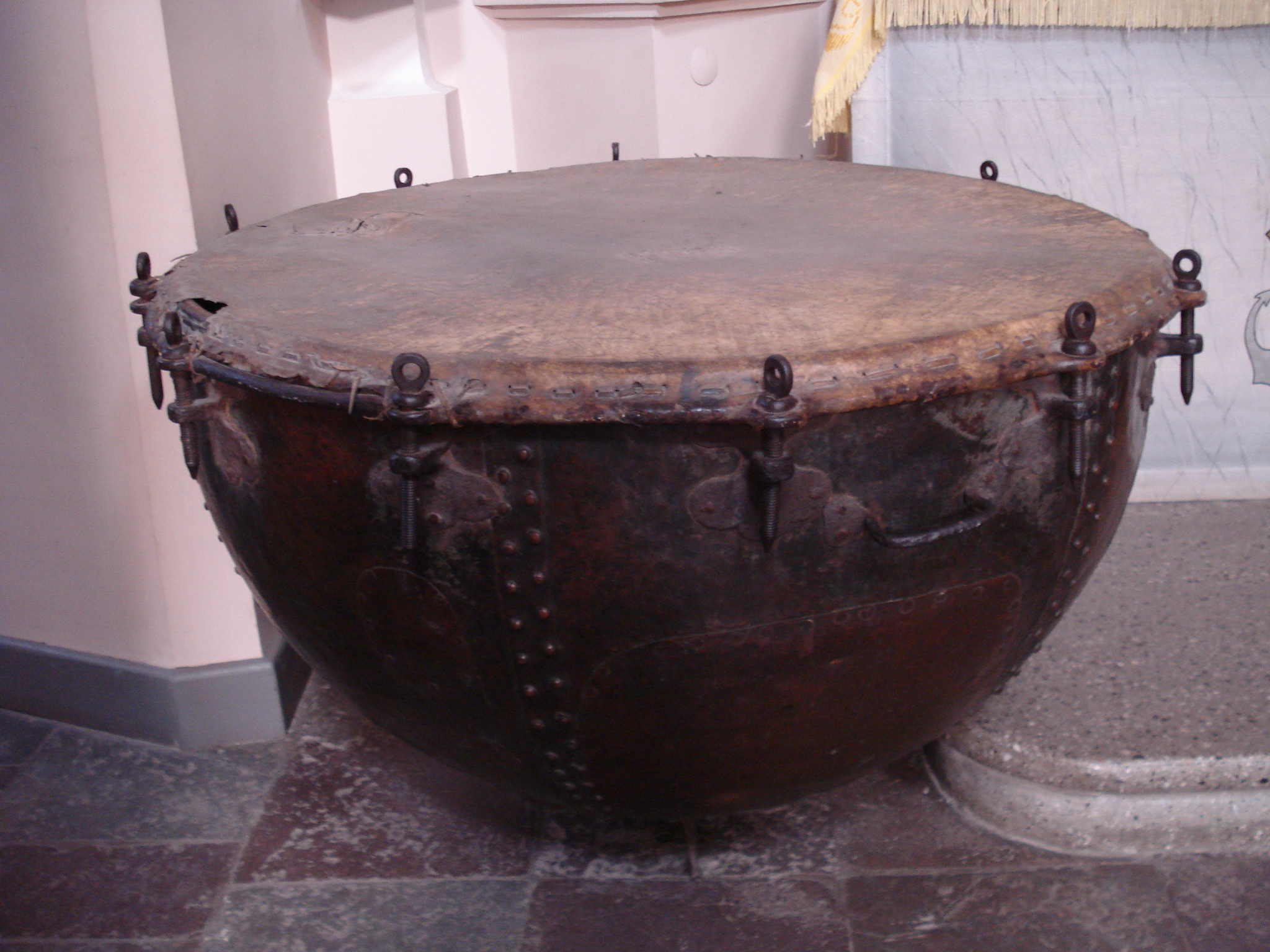 Kettledrum in the Church of St. Peter and St. Paul in Vilnius (Kościół Św. Piotra i Pawła w Wilnie). 17 century, maybe trophy from Turkish war 1673